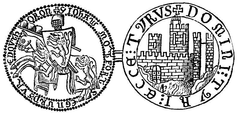 Jean de Montfort (died 1283)